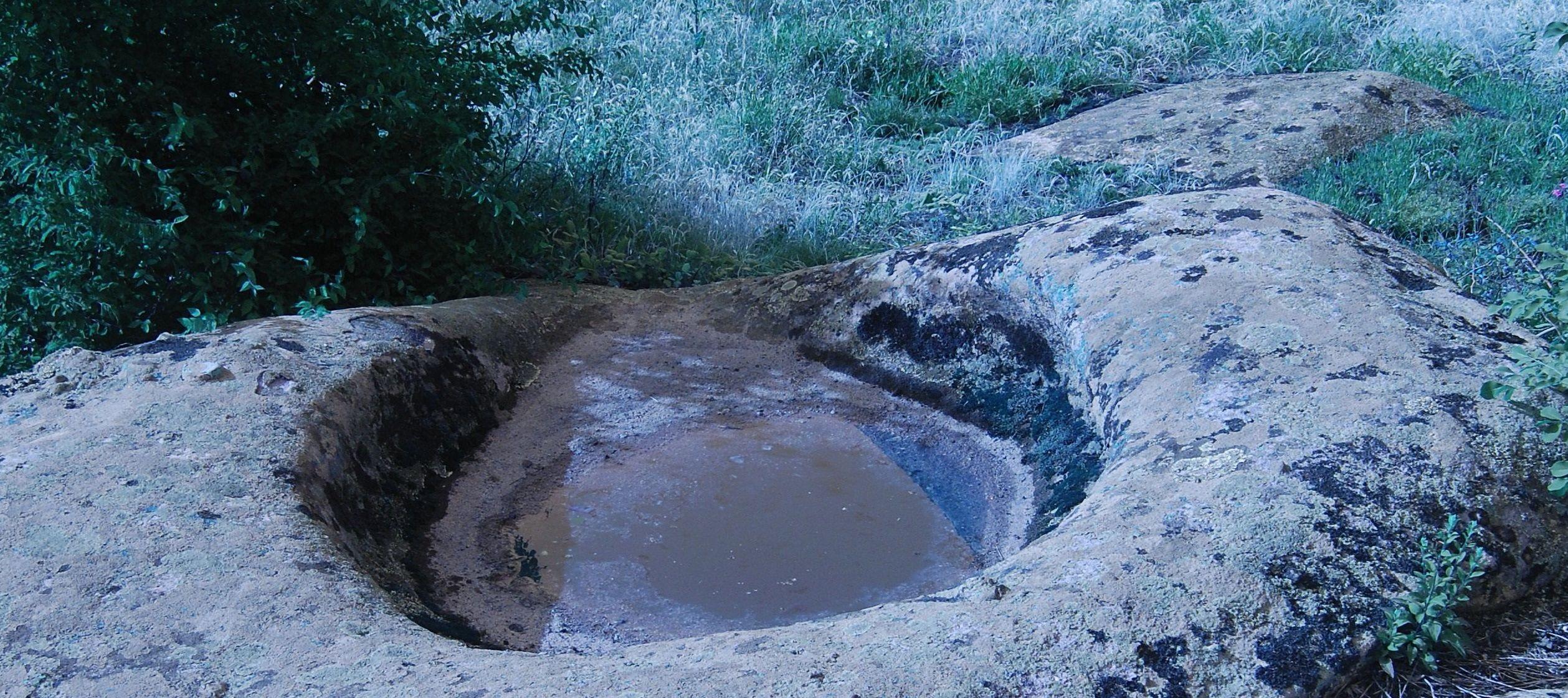 Sharapana Belogradchik BG